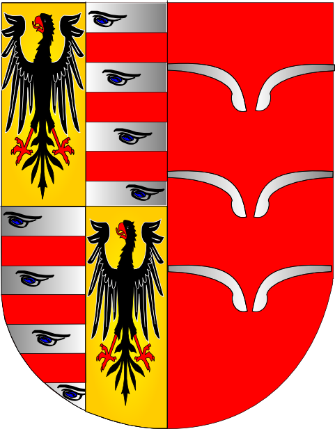 Arms of the Portuguese Duke of Ávila and Bolama. Made by JSobral